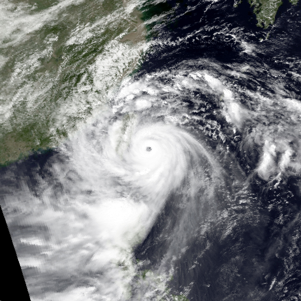 Typhoon Sarah on September 11, 1989 with winds of 140 mph and a pressure of 950 mbar.